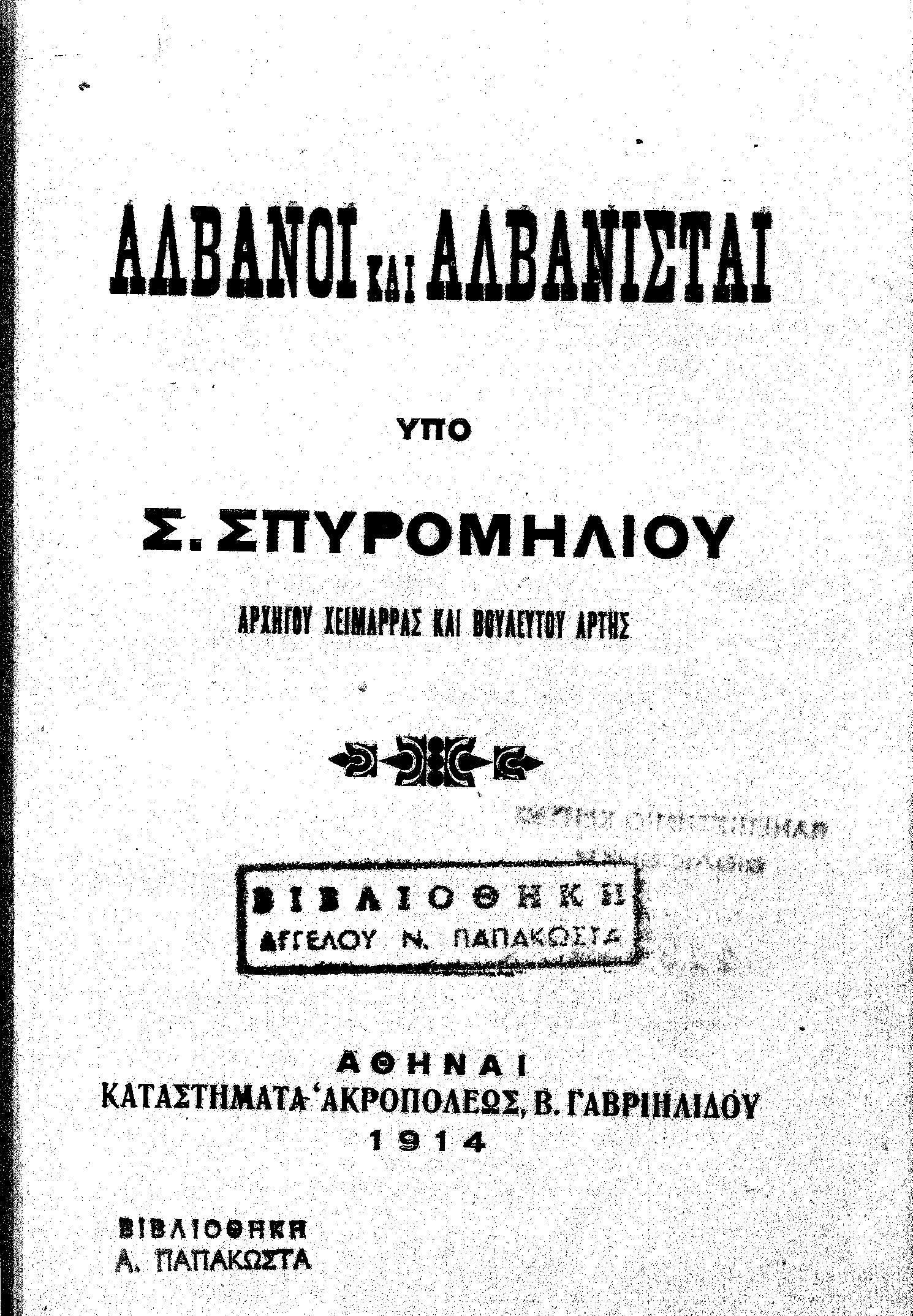 Αλβανοί και Αλβανισταί. Αθήναι: καταστήματα Ακροπόλεως,Β. Γαβριηλίδου, 1914..